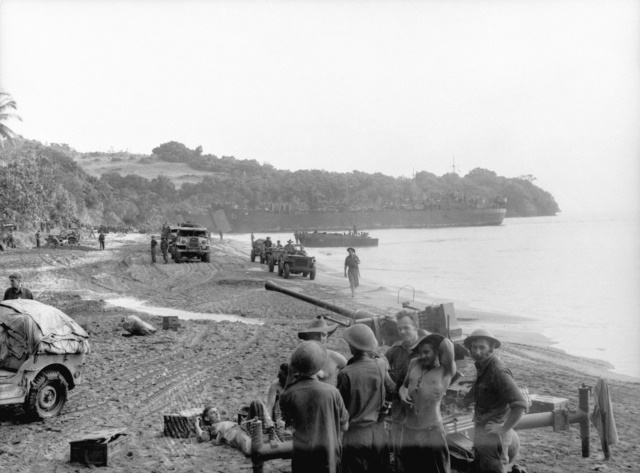 Scarlet Beach on the Huon Peninsula of New Guinea on 22 September 1943, not long after it was captured by Australian soldiers.